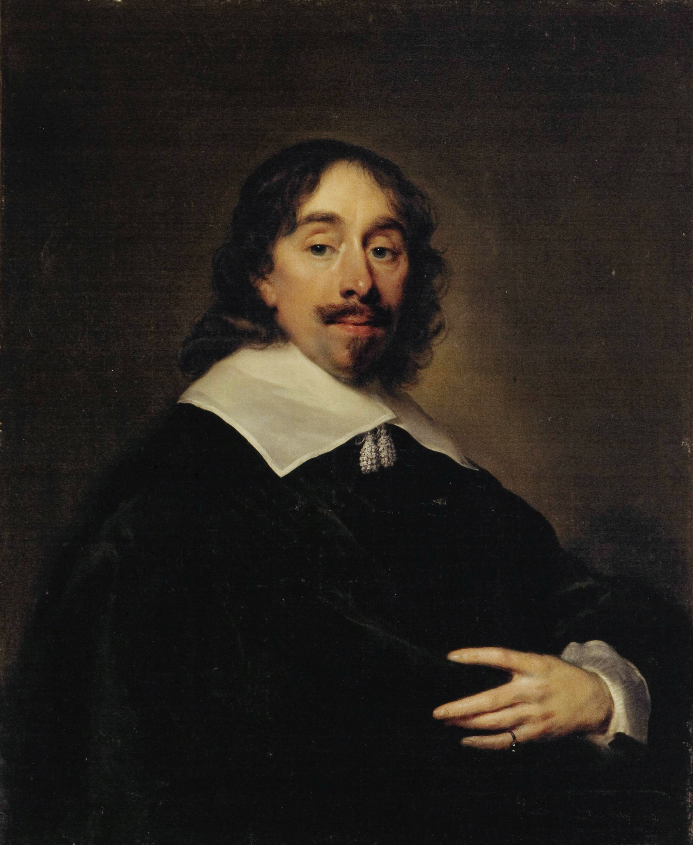 Thomas Cletcher (1598-1666), mayor of The Hague, the Netherlands. This image is available from the Netherlands Institute for Art Historyunder digital ID 227844. This tag does not indicate the copyright status of the attached work. A normal copyright tag is still required. See Commons:Licensing.